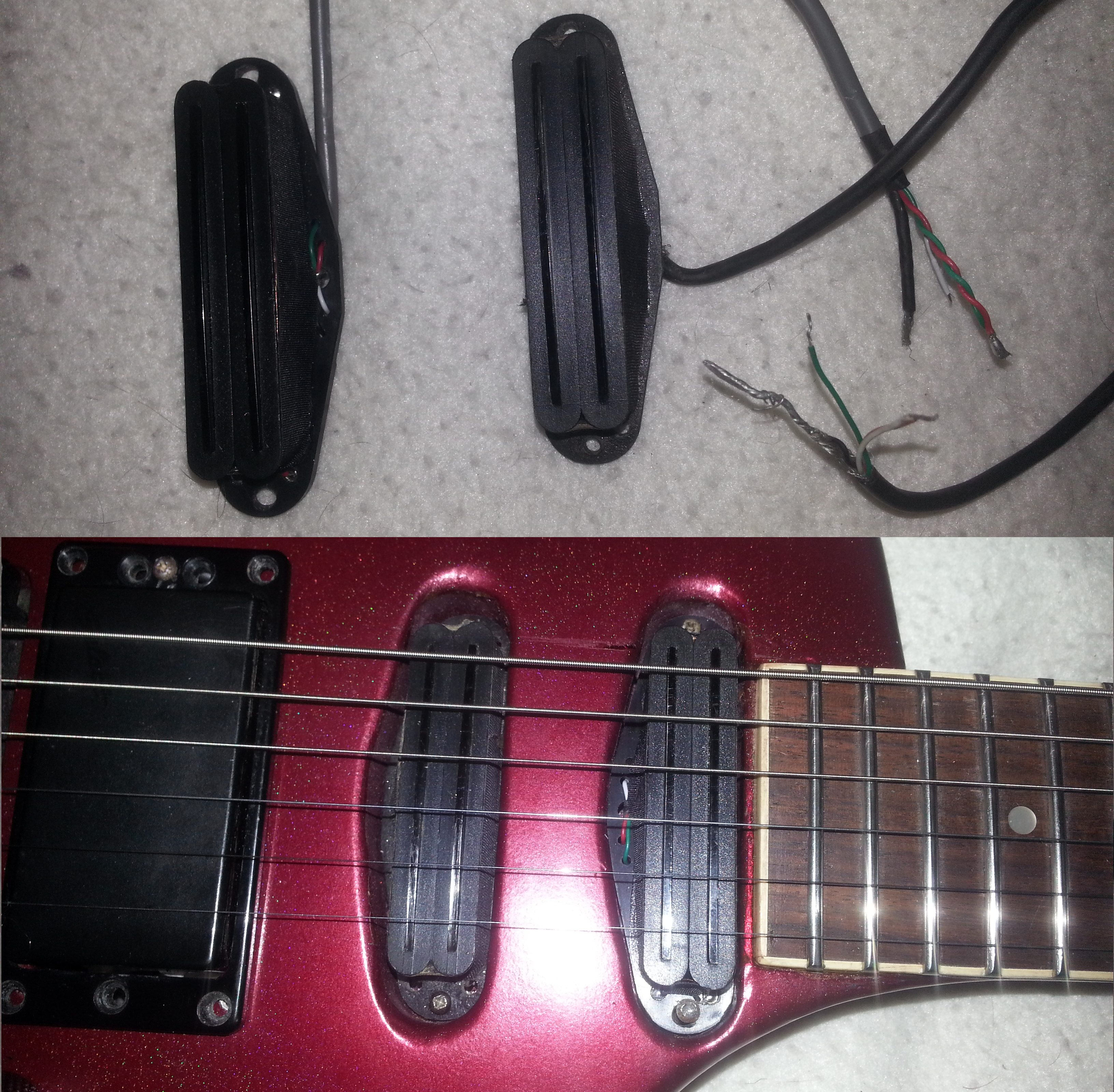 A pair of mini-humbuckers, unsoldered (top), and fitted on a modified Hohner G3-T (bottom)